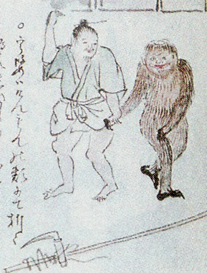 Uba (宇婆, a kind of "Kenmon") from the Nantō-Zatsuwa (南島雑話)